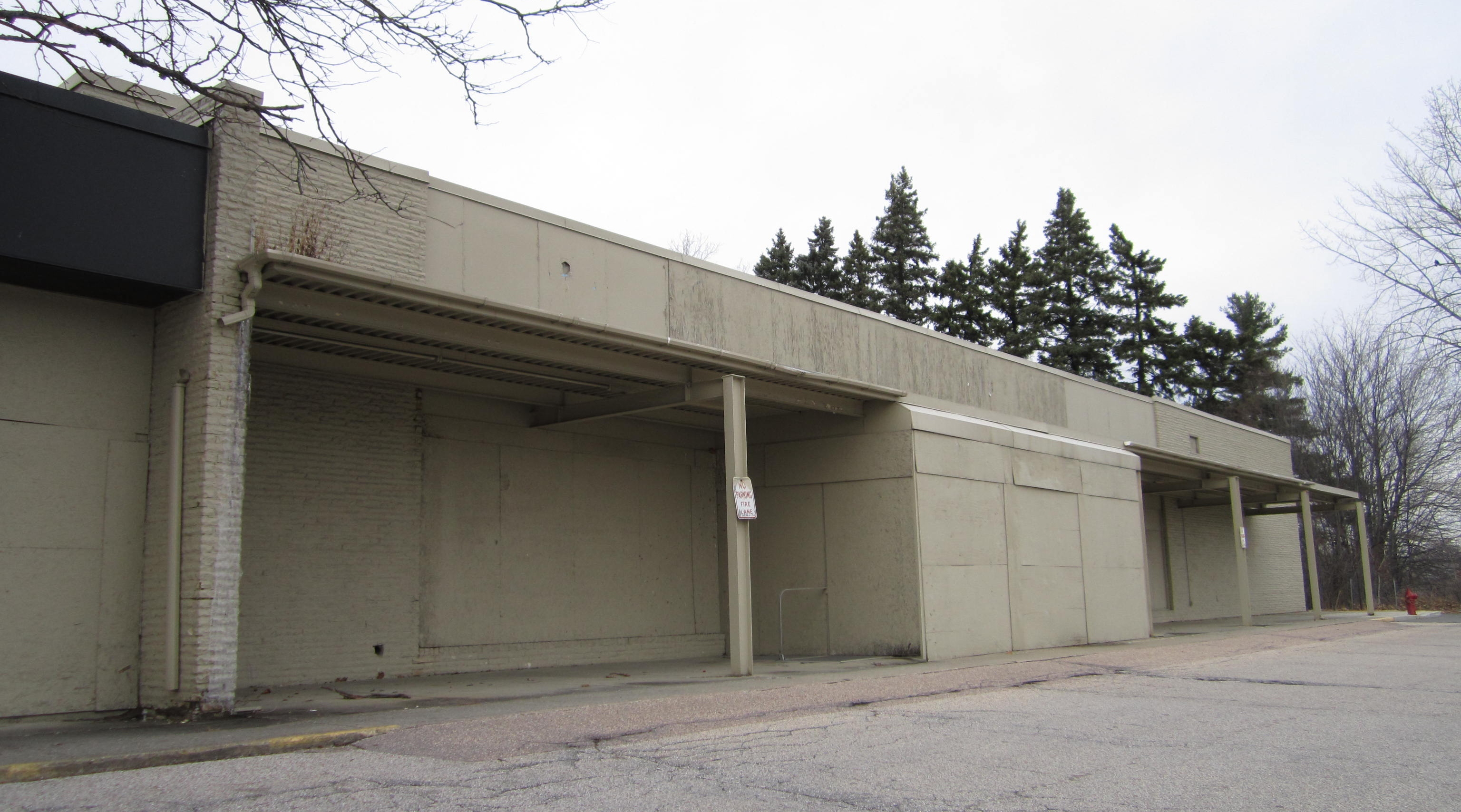 Former location of Martin's Foods in South Burlington, Vermont.